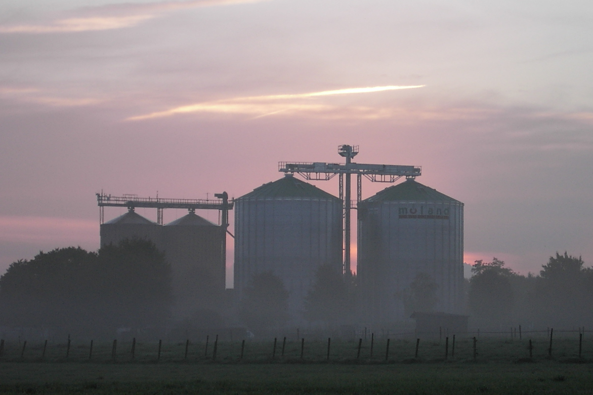 view on Waldfeucht-Selsten, grainsilos of Heinsberger Agrar-Handel